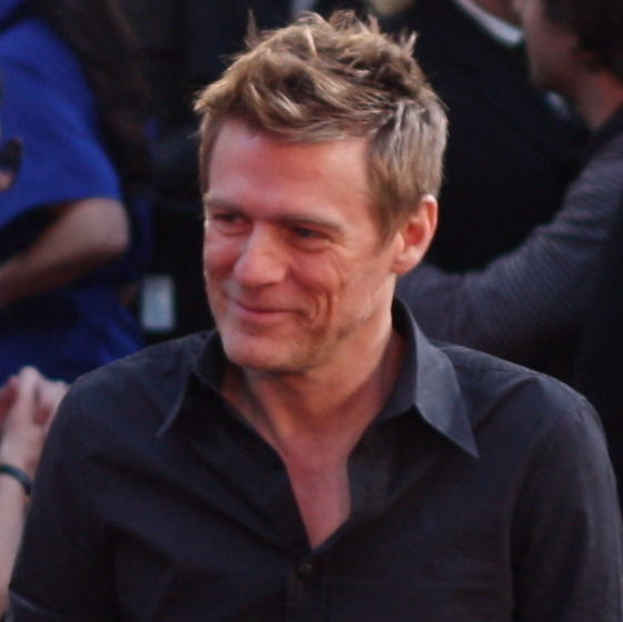 Canadian musicians Bryan Adams and Kathleen Edwards on the red carpet at the 2009 Juno Awards, interviewed by Tanya Kim of eTalk Daily